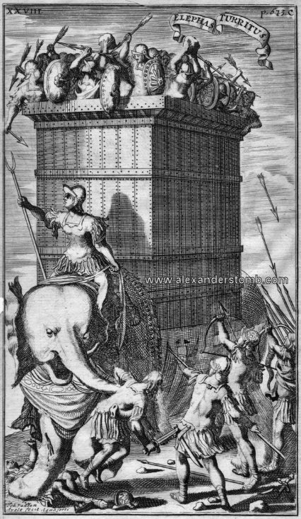 Indian war elephant against Alexander’s troops by Johannes van den Avele, 1685